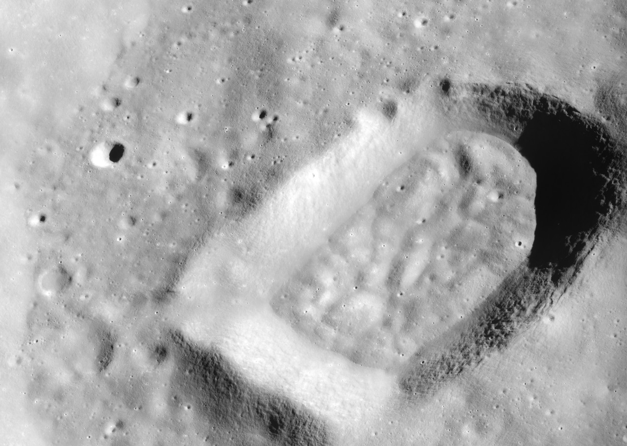 The interior of Barbier (crater), showing Barbier F, on the far side of the moon. North is down and to the right. This is Figure 238 of Apollo Over the Moon (NASA SP-362, 1978), which has the following caption: The obvious peculiarity of this crater is its shape, the causes for which are open to speculation. The entire area pictured is in the floor of the 60-km-diameter crater Barbier, located on the lunar far side and centered at 23.9° S, 157.7° E. Barbier is a relatively old crater, and the high density of craters on its floor is evident in this high-resolution photograph from the Apollo 15 panoramic camera. The two angular corners of the oddly shaped crater suggest that its present form is partly controlled by faults or joints in the floor of Barbier. The slightly raised rim of the crater evidenced in the shadow on the rim at the left and the brightening on the rim in the lower right side of the crater-shows that material was ejected from the crater at the time of its formation and that it is not simply a collapsed portion of the floor of Barbier. The long dimension of the pictured crater is 16 km, and the short dimension is 10 km.-M.C.M. (Michael C. McEwen)